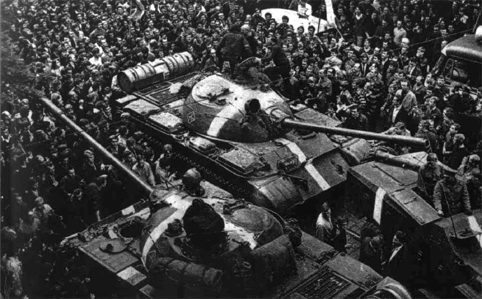 Crowd of protesters surrounding Soviet tanks during the first days of the invasion.